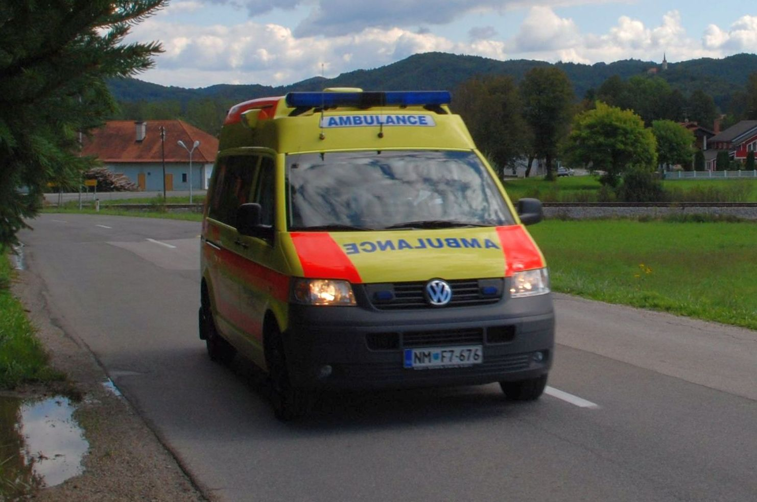 An ambulance in Puščava, Mokronog–Trebelno, Slovenia.